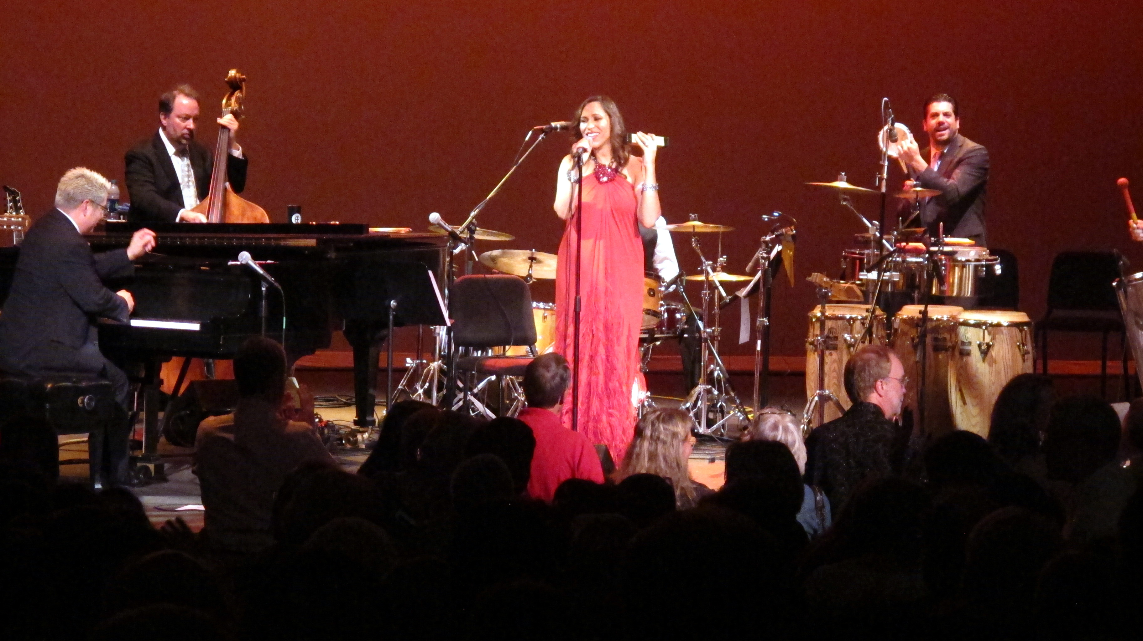 Pink Martini performing at the Savannah Music Festival in Savannah, Georgia, United States in March 2012